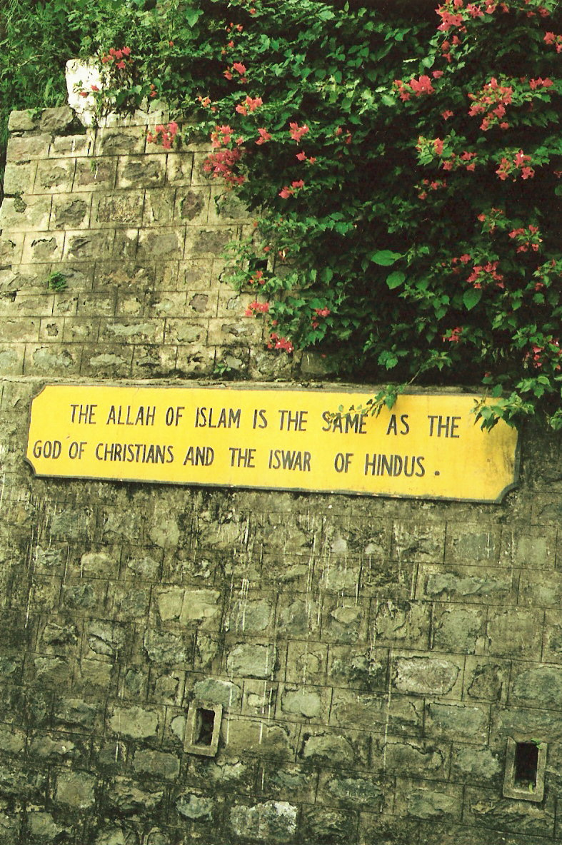 A sign at a train station on the kalka-shimla line